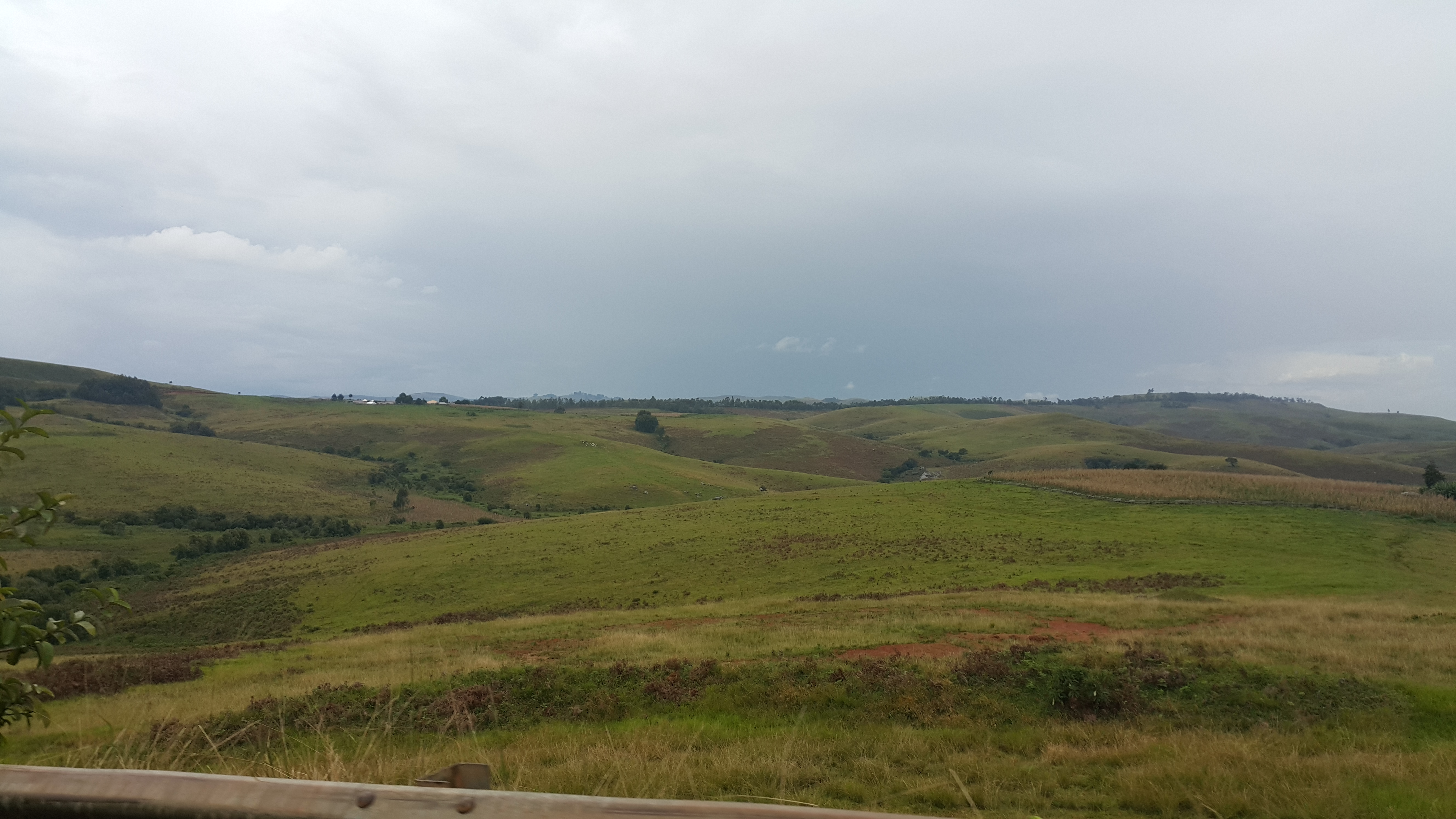 Highlands, green vegetation, angry clouds and fear inspiring valleys of the Mambilla plateau, Mai Samari Axis, Taraba state, Nigeria